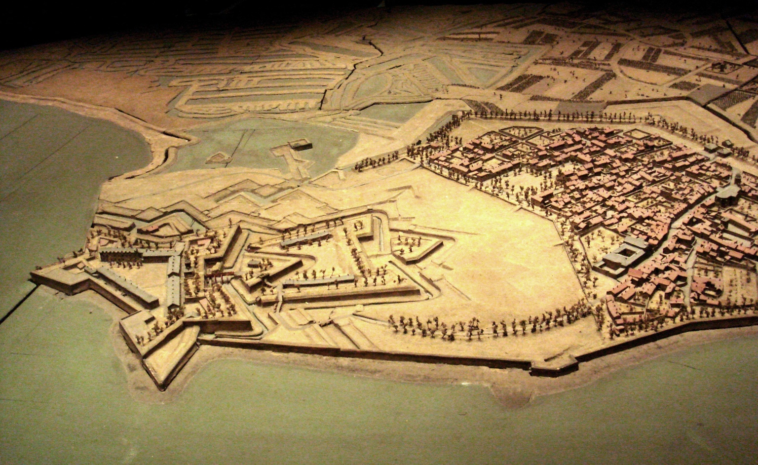 Chateau_d_Oleron_1703_military_mock_up